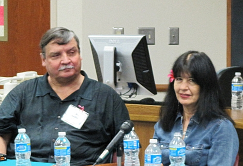 Michael Wallis and Joy Harjo. This is a derivative image, a cropped version of